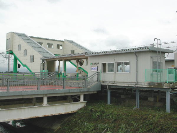 The norht side of Nishi-Shibata Station in Shibata, Niigata, Japan